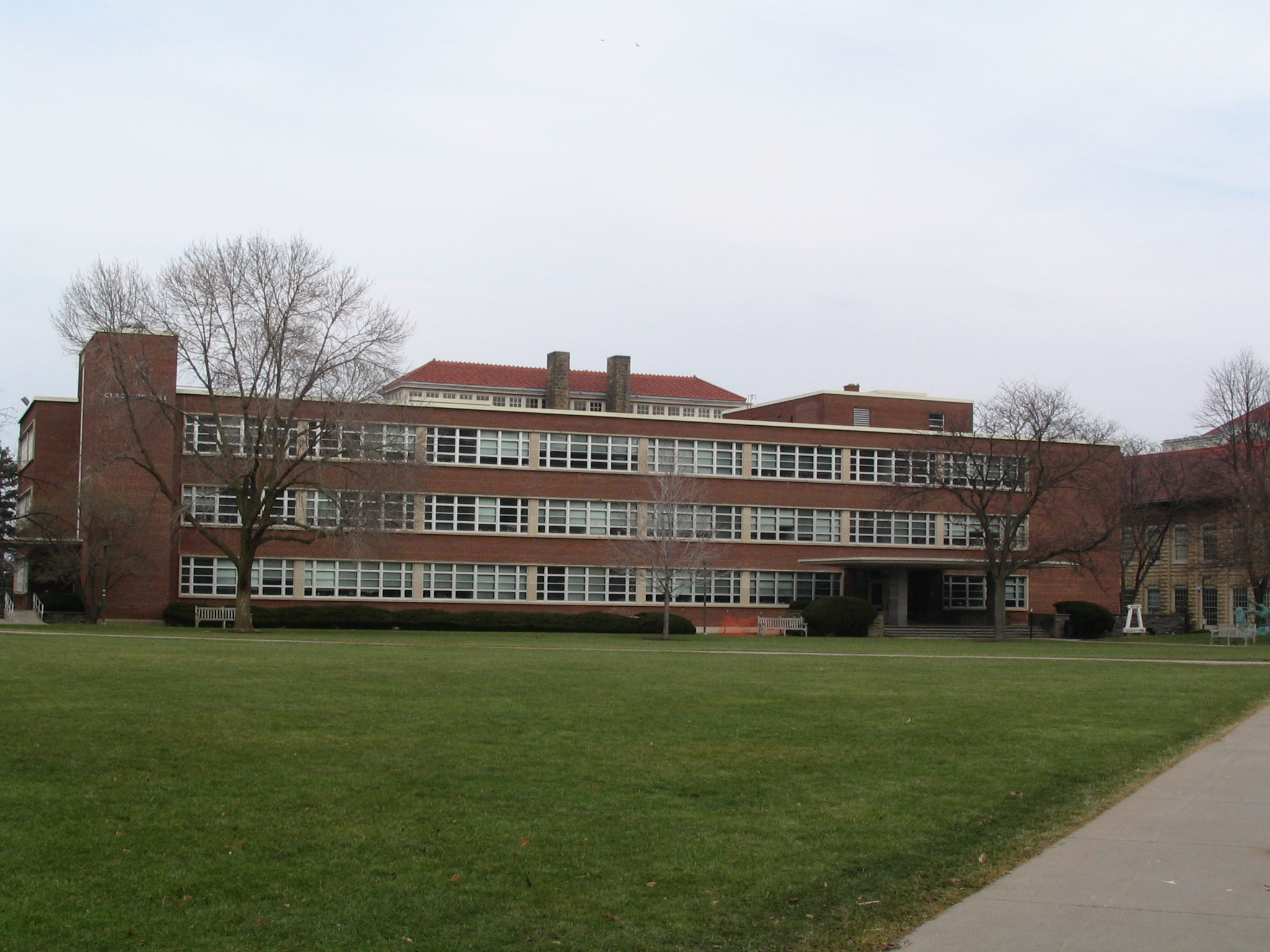 This is an image of Hinds Hall that I took with my digital camera. This building is located on Syracuse University.